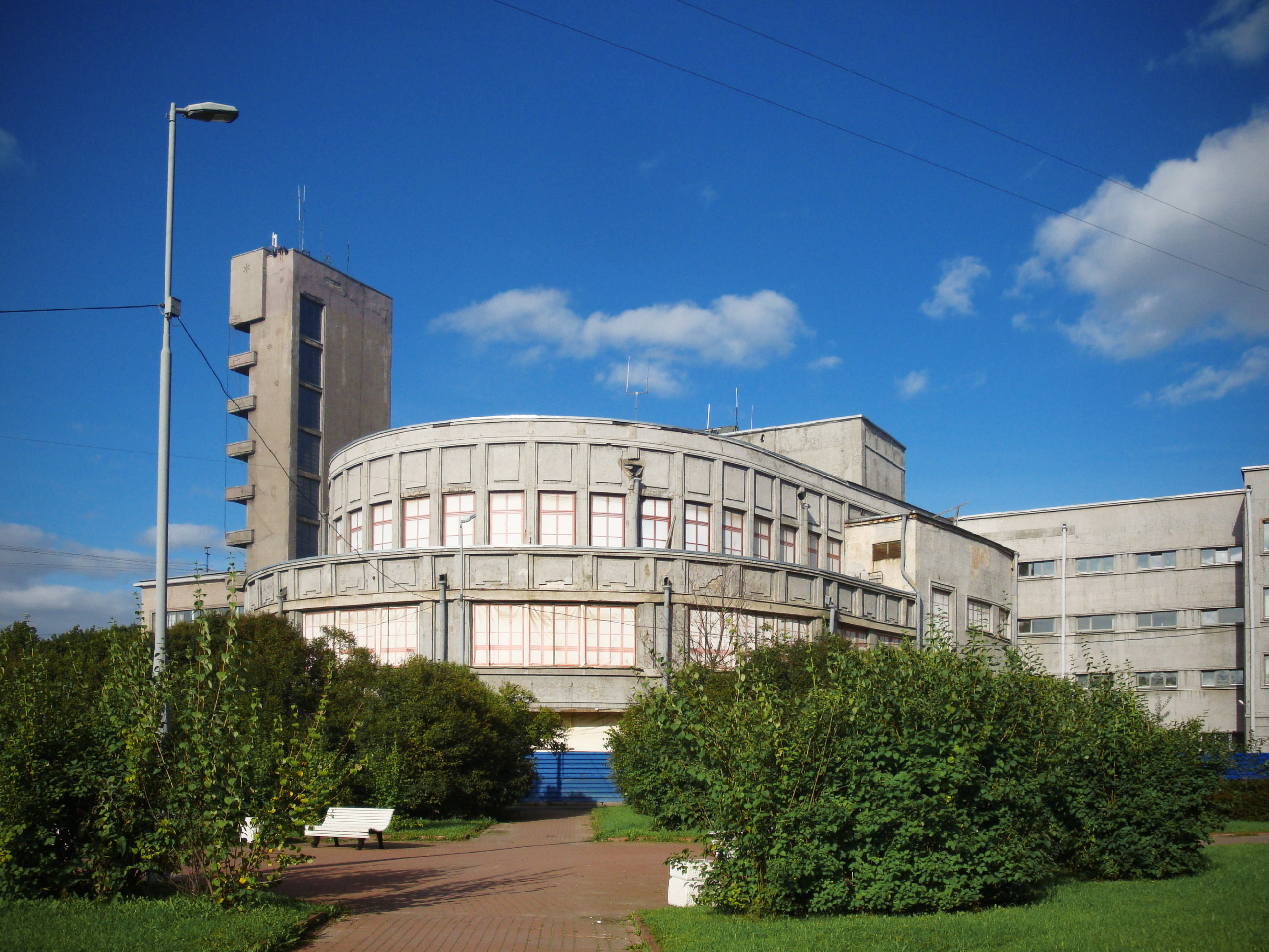 The Kirov District Council. It was built by the architect N. A. Trotsky in 1930-1935. Monument constructivism.